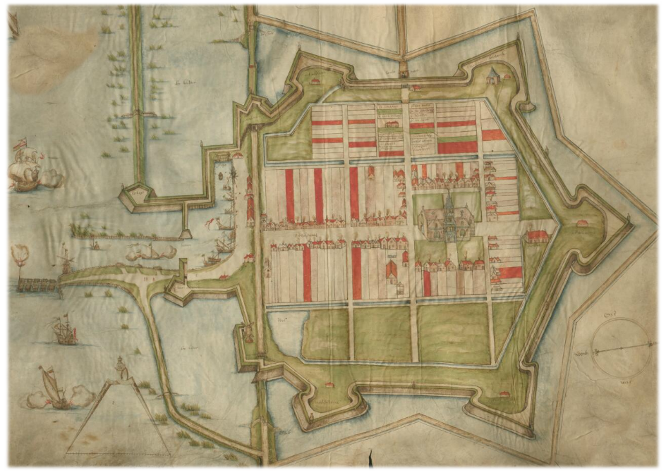 Map of Willemstad (Netherlands)